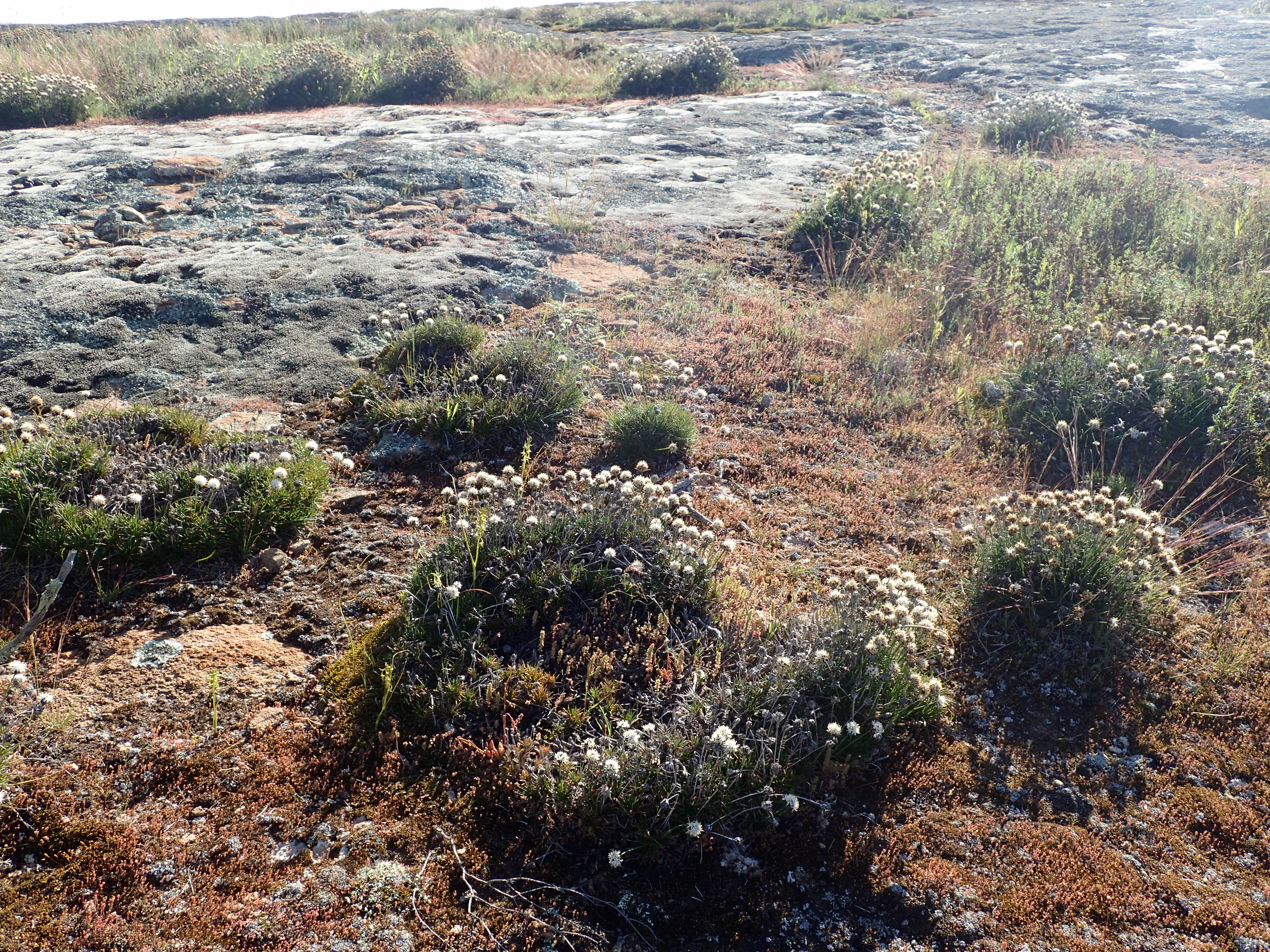 Prasophyllum gracile growing in the Pallarup Nature Reserve north of Ravensthorpe, Western Australia